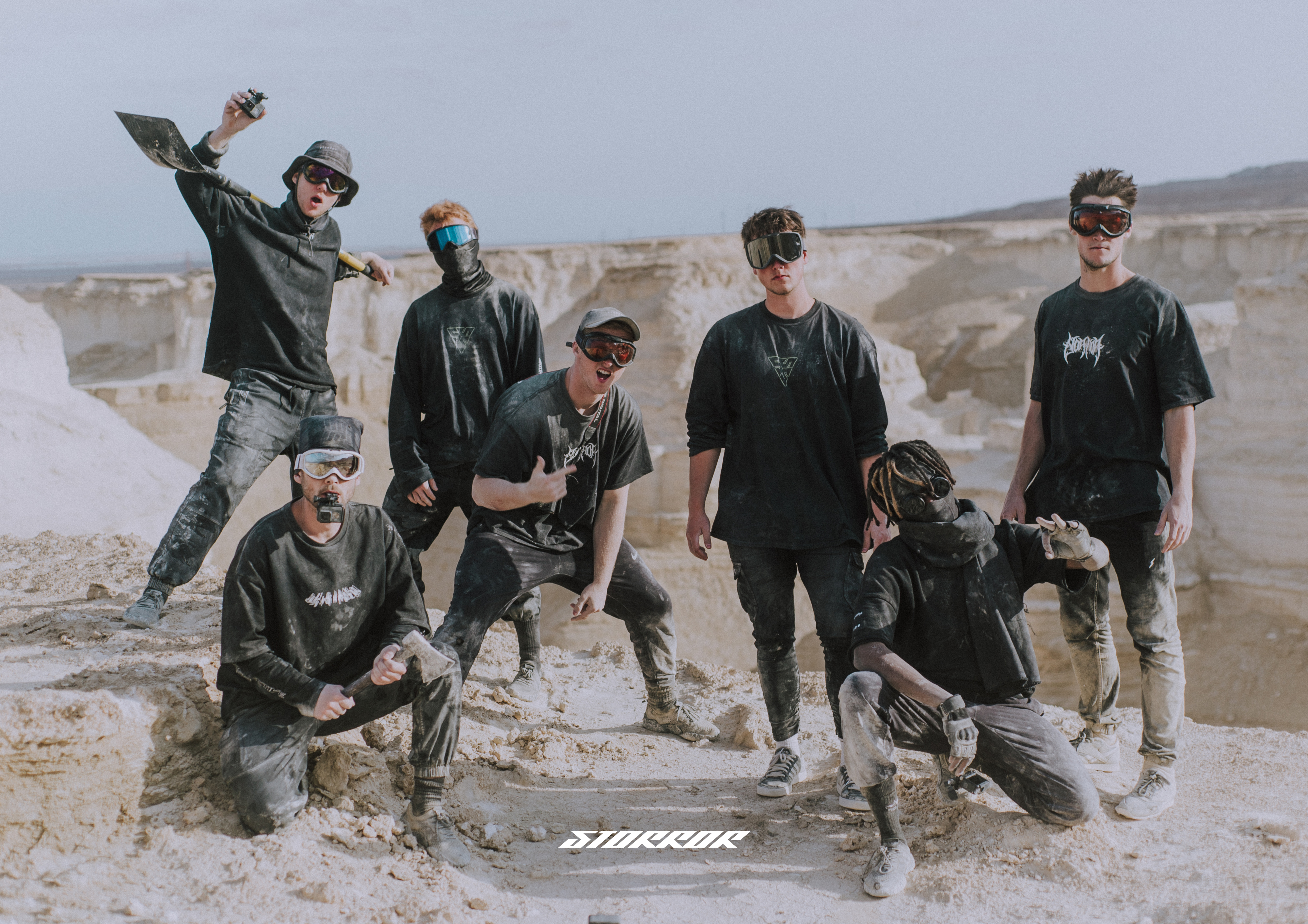 Storror team in Masada desert 2019